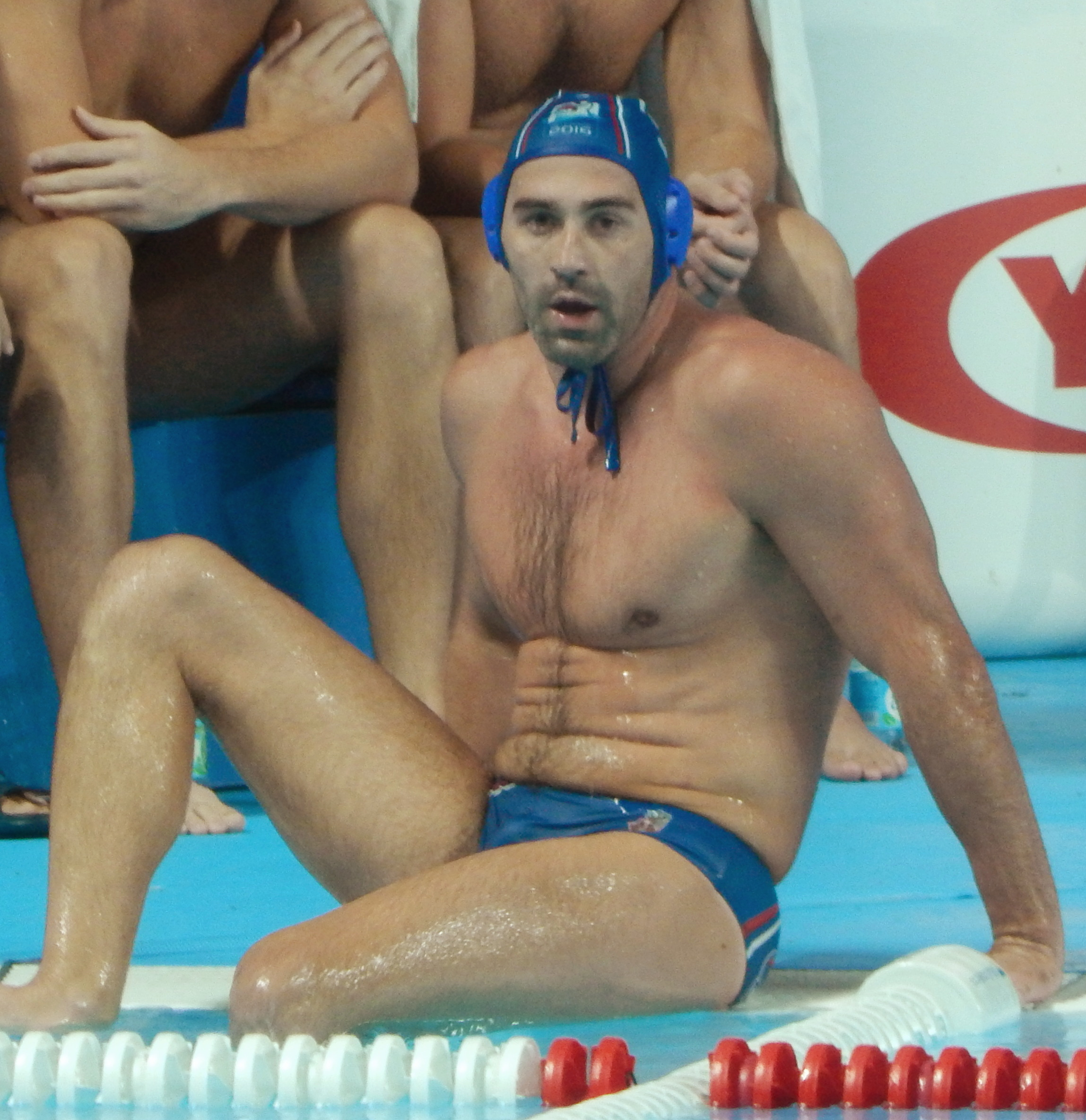 The gold medal match between Team Serbia and Team Croatia and the victory ceremony. All photos have been taken from the photographers sector. I was simply usual visitor but my ticket was to non-existent seats, therefore I was moved to that sector. All good photos I upload to WikiCommons for free use.